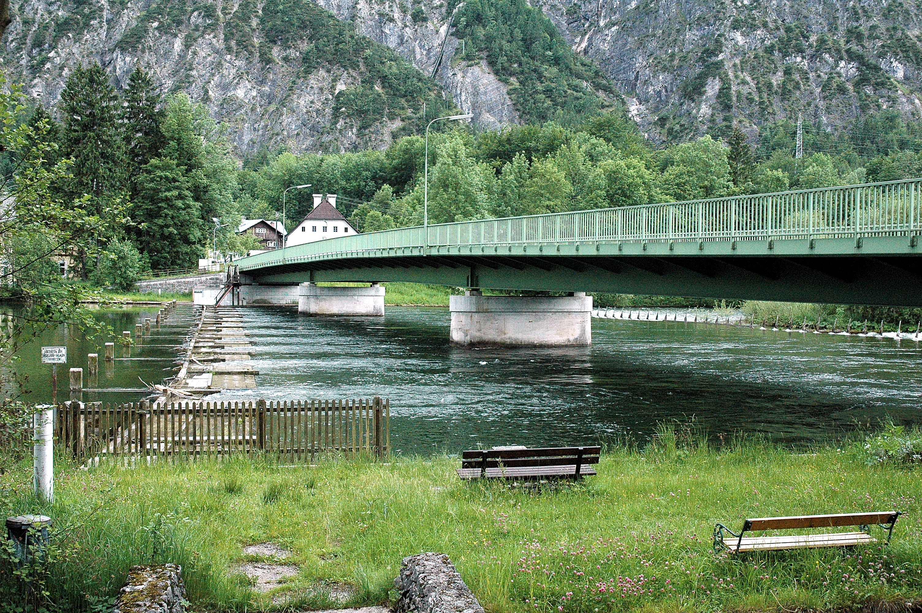 Road bridge and weir across the Traun at the outflow from Hallstatter Lake, Upper Austria